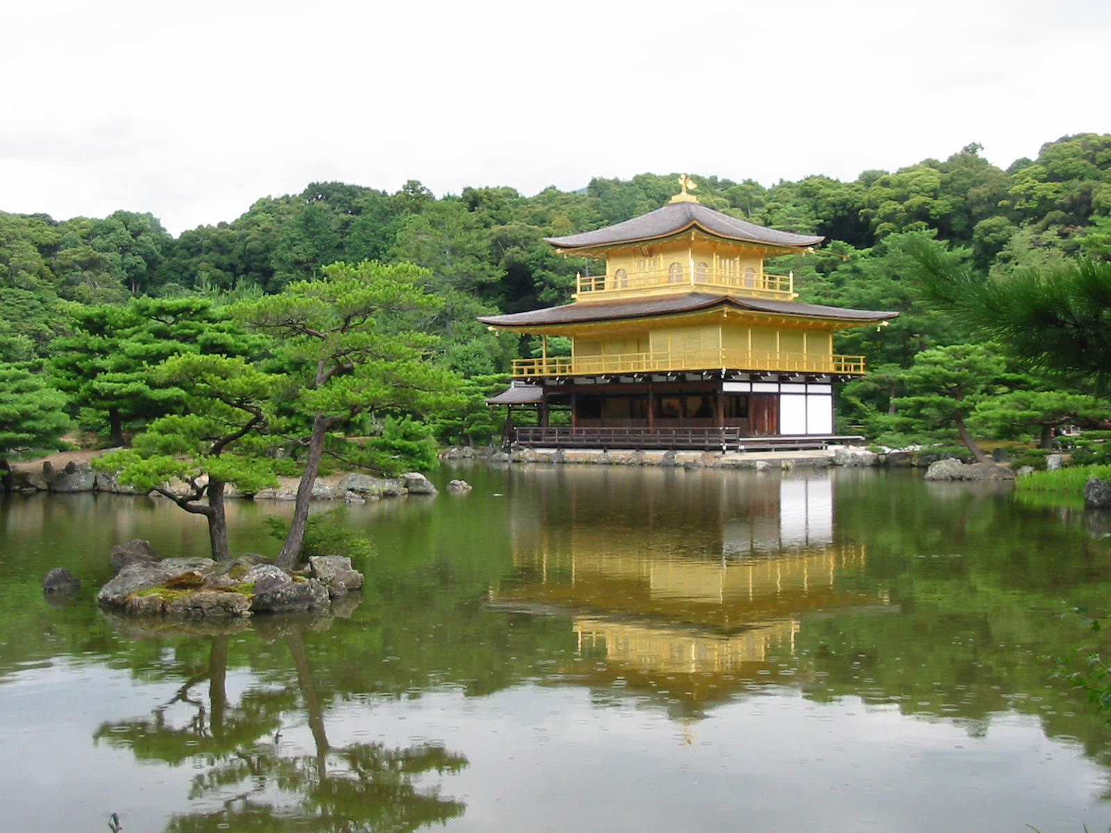 Kinkaku-ji, „golden Temple“ ; Kyoto, Japan